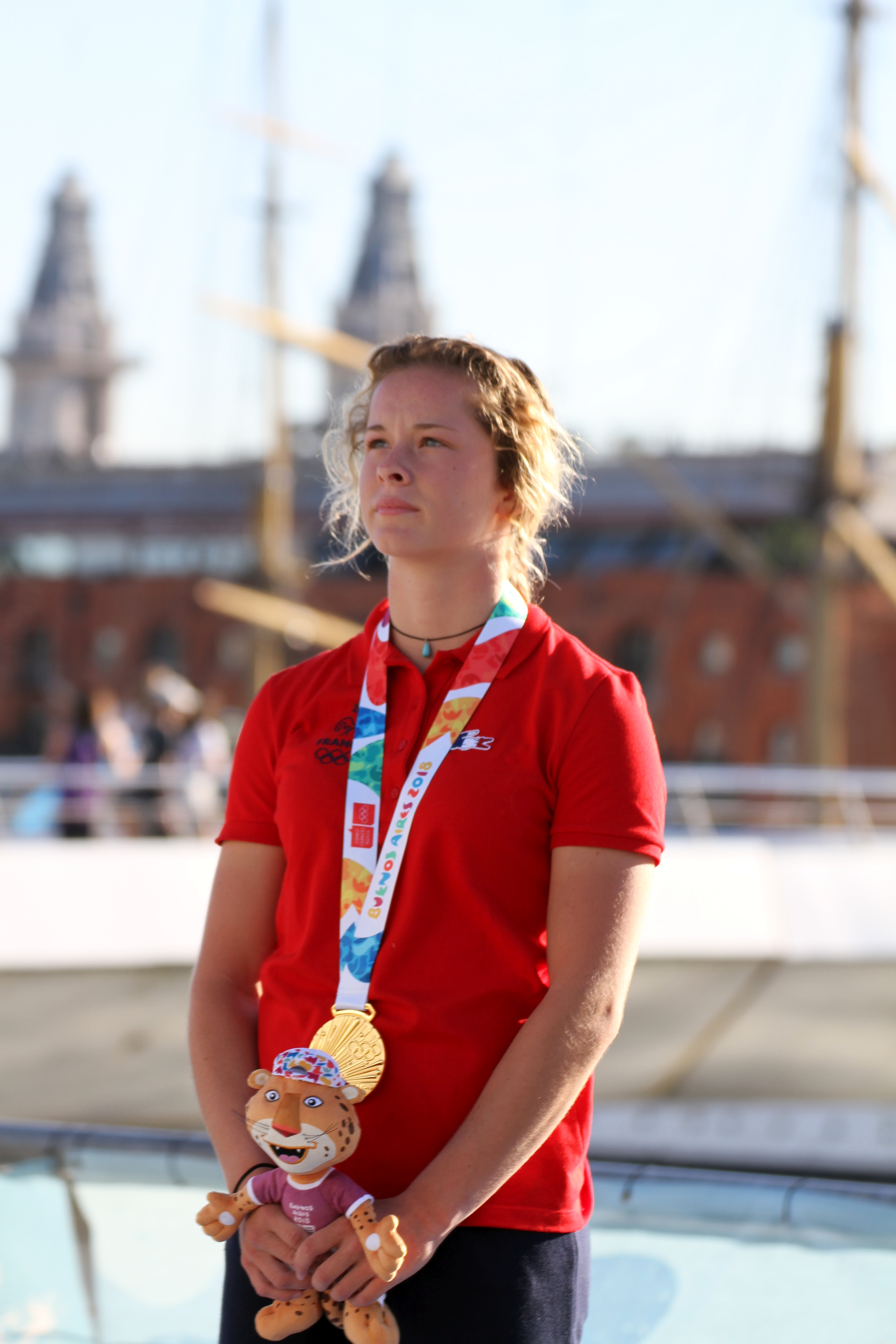 Canoeing at the 2018 Summer Youth Olympics at 16 October 2018 – Girls' C1 slalom Gold Medal Race: Doriane Delassus (France, gold) - Zola Lewandowski (Germany, silver) - Emanuela Luknárová (Slovakia, bronze)